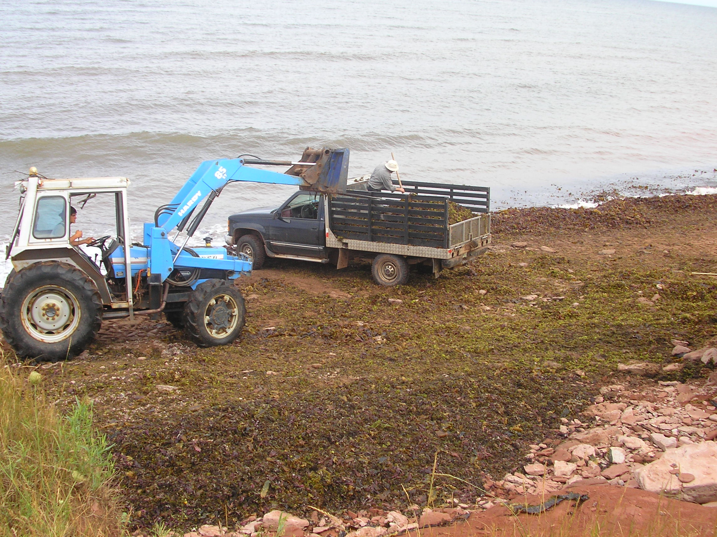 Harvest of brown seaweed, North Cape, PEI, Canada